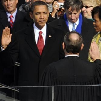 Barack Hussein Obama takes the oath of office from U.S. Chief Justice John G. Roberts Jr. in Washington, D.C., Jan. 20, 2009, becoming the 44th President of the United States. More than 5,000 men and women in uniform are providing military ceremonial support to the presidential inauguration, a tradition dating back to George Washington's 1789 inauguration.VIRIN: 090120-F-3961R-1428